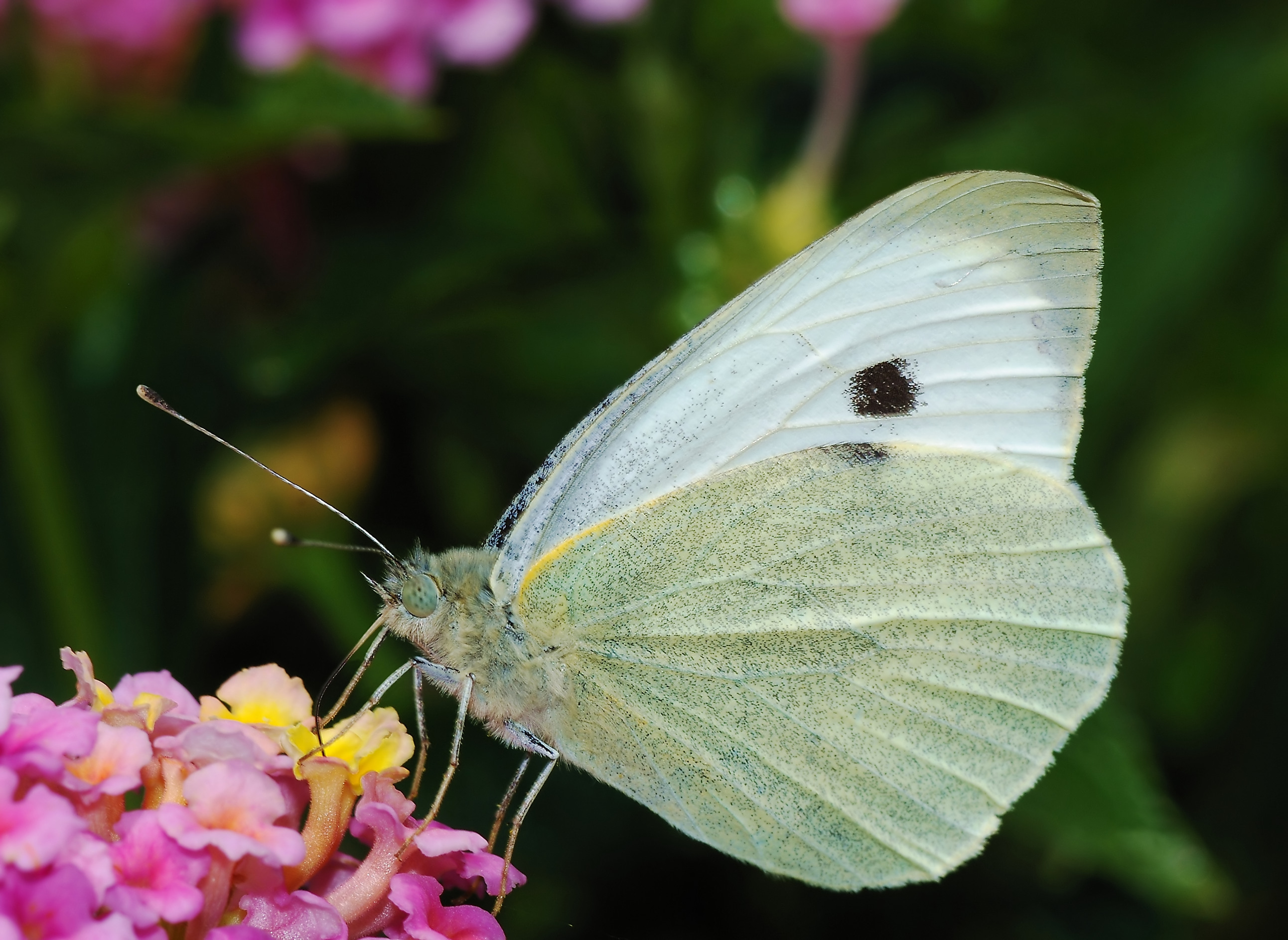 A Large White butterfly (Pieris brassicae). Camera: Nikon D80 with Tokina 100mm macro. Exposure: manual, 1/100, F/13, ISO 100.